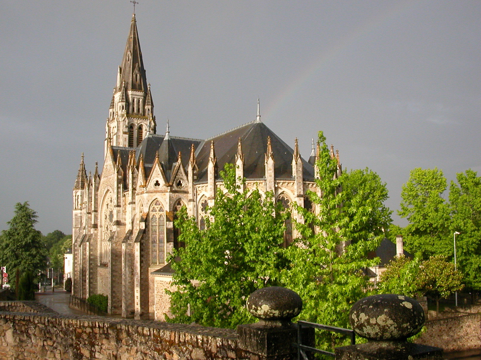 Saint-Léger's church in Orvault